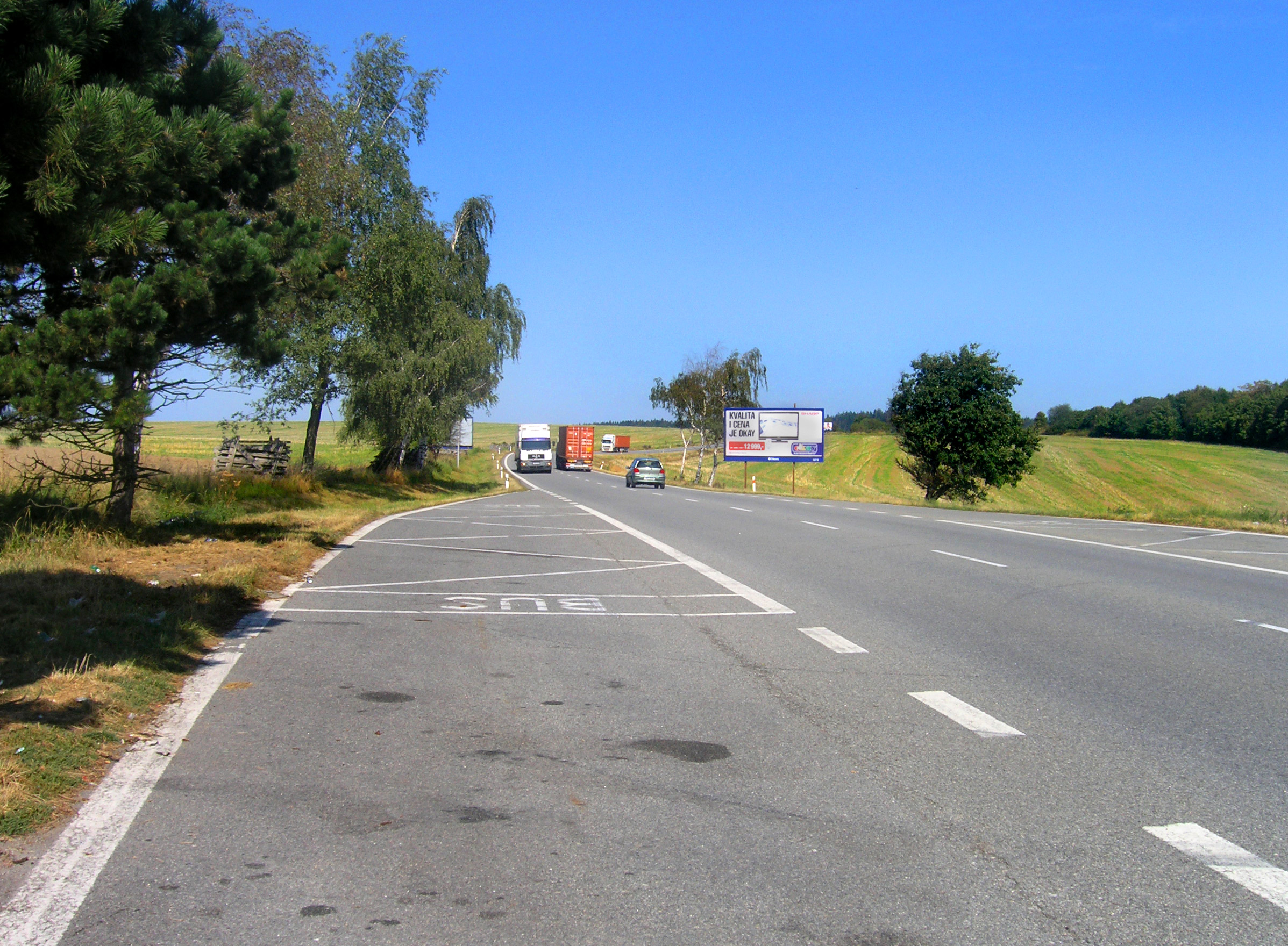 Road No 3 south of Miličín, Czech Republic